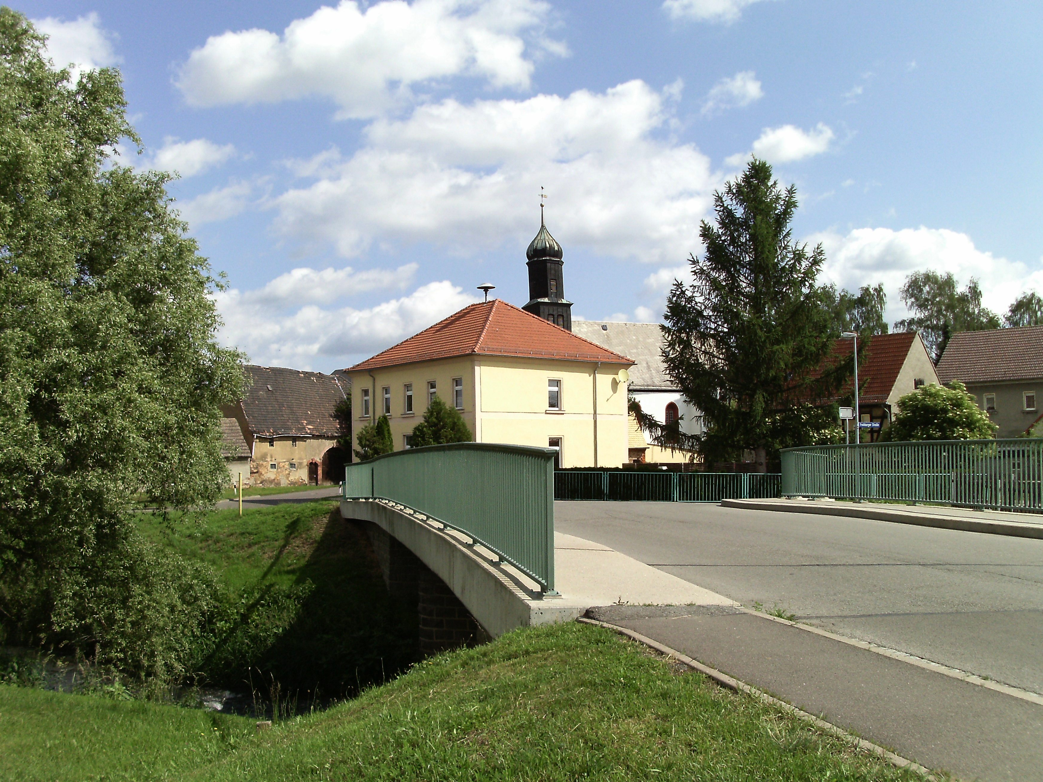 Wyhra bridge in Benndorf (Frohburg, Leipzig district, Saxony) with the church in the background